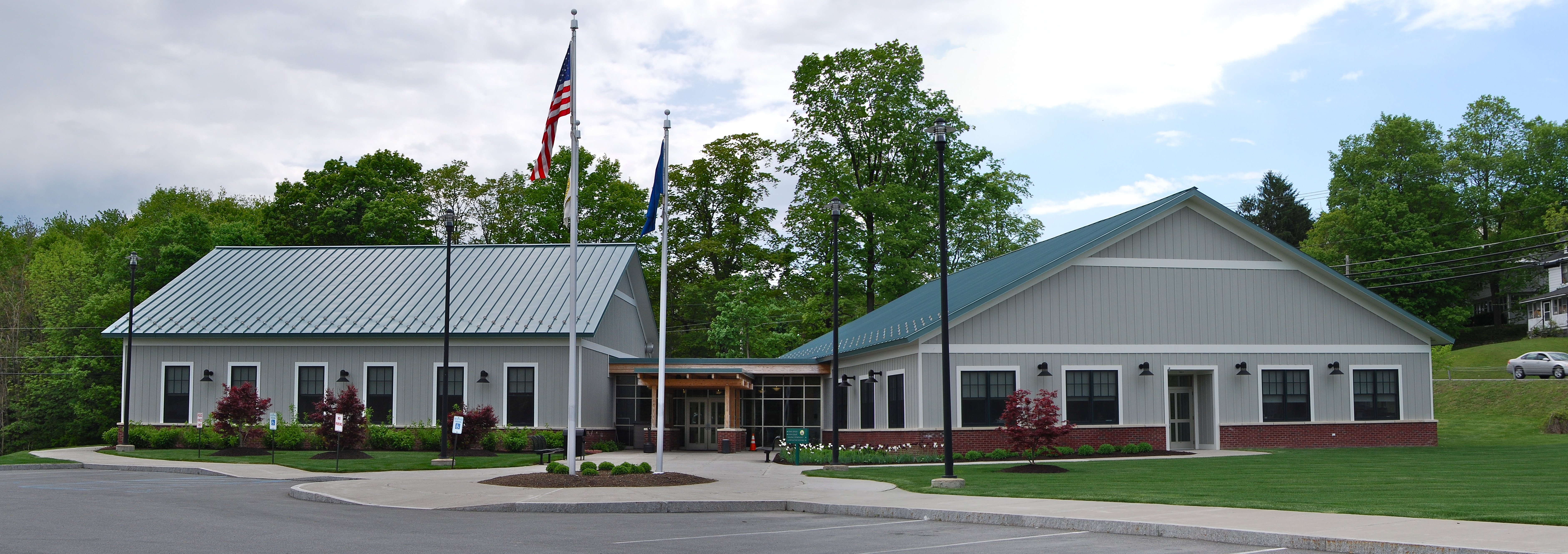 Town hall of Brunswick, New York, United States